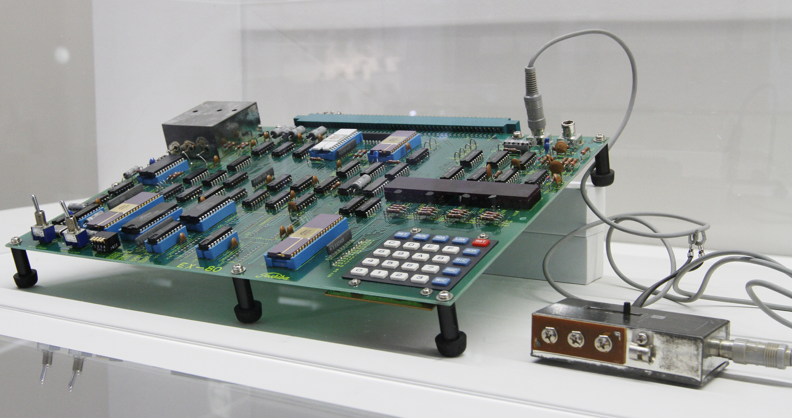 Toshiba EX-80 (1979)